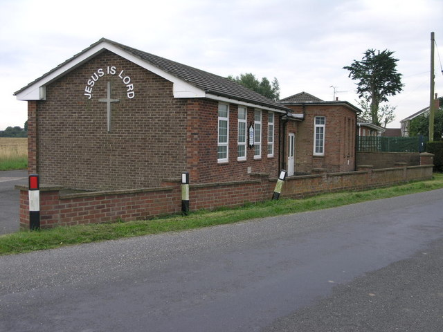 Addlethorpe Methodist Church. Both a service and Sunday School are held at Addlethorpe Methodists Church at 11am. On a Sunday I would expect.